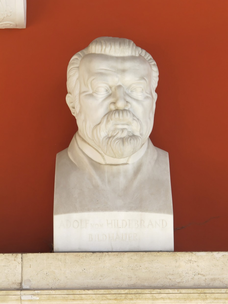 Munich, Hall of Fame, Bust of "Adolf von Hildebrand" (Sculptor)